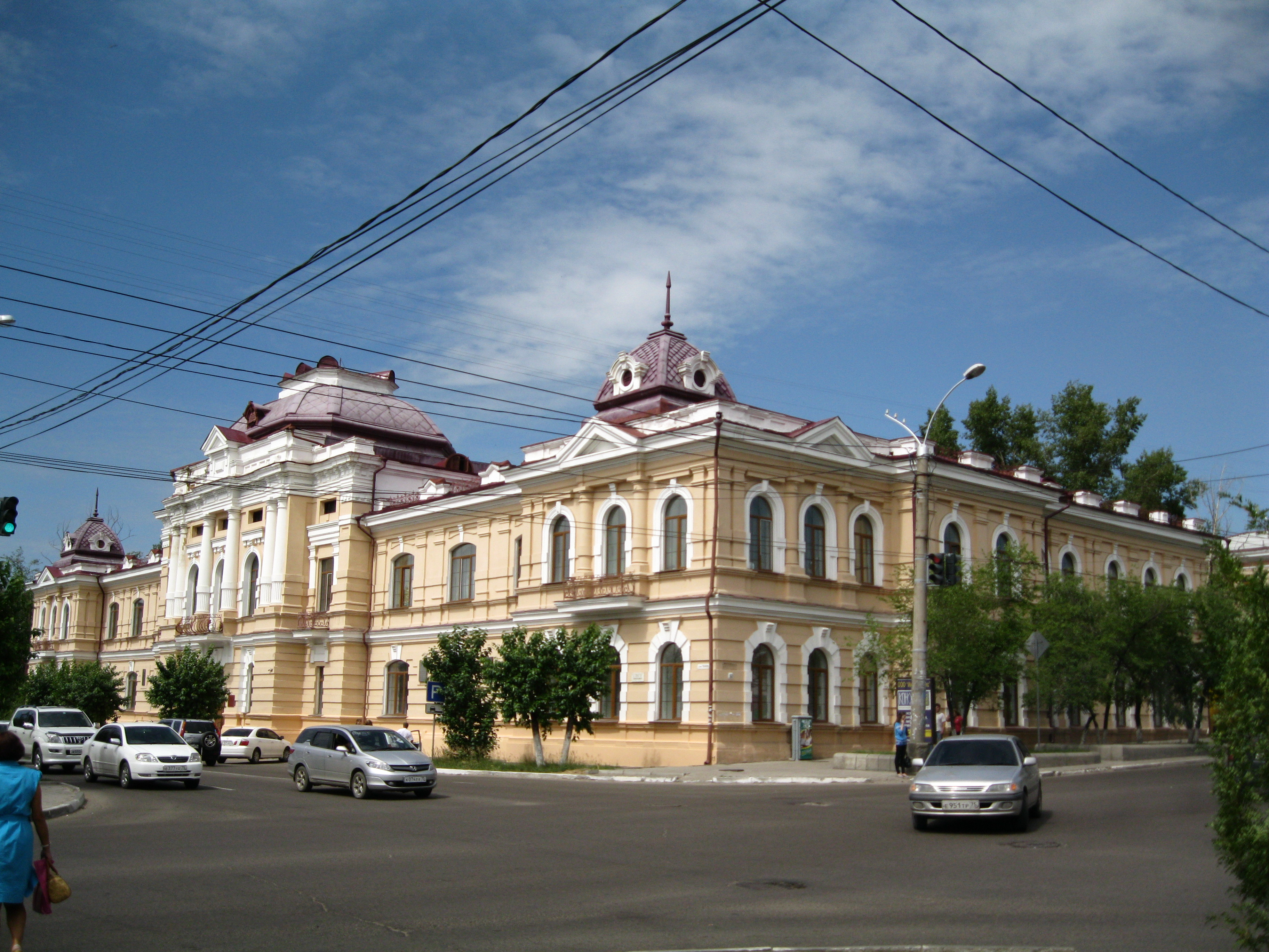 Pedagogical Institute in Chita, Russia